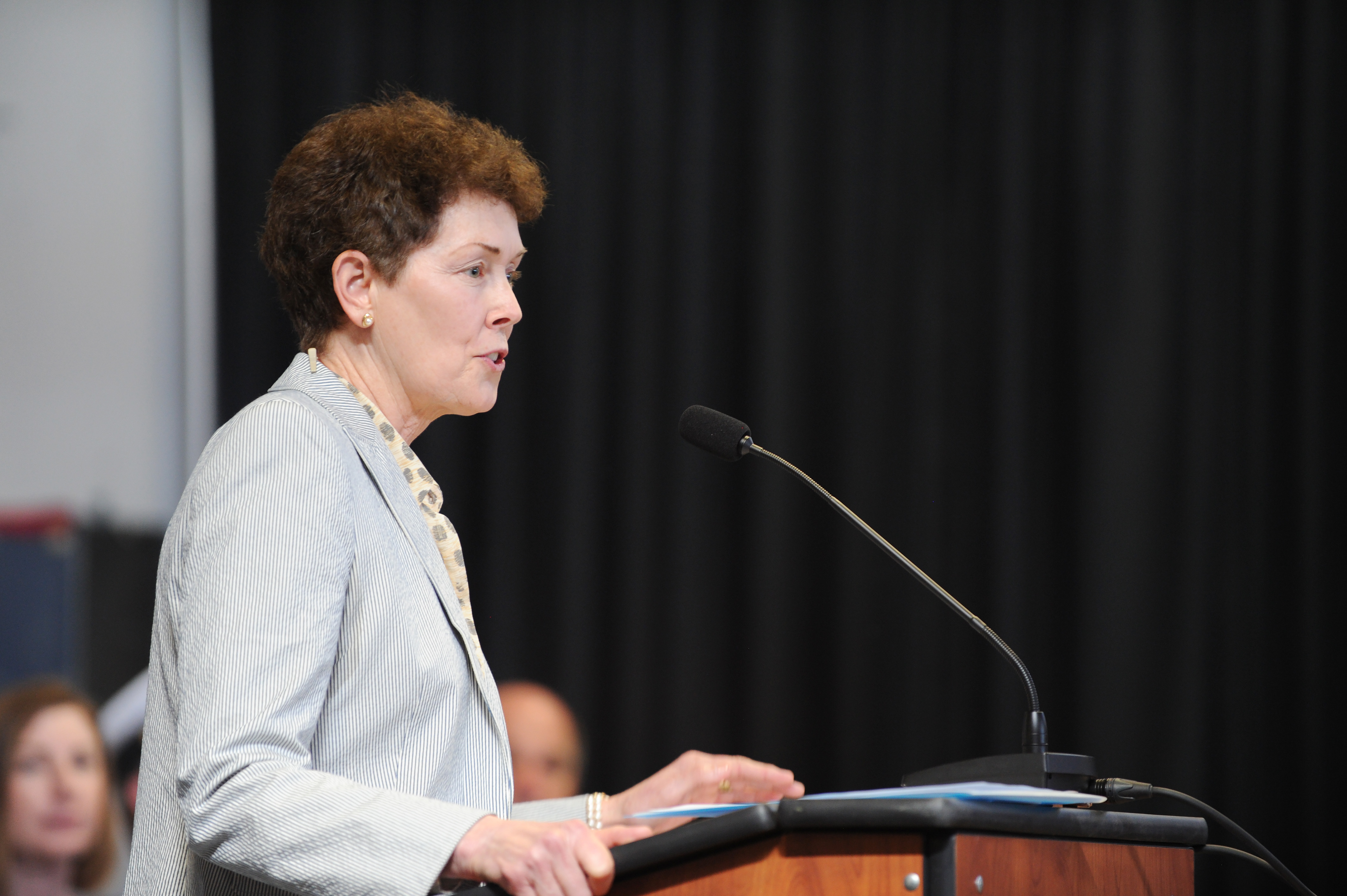 140809-N-PO203-311 ANACORTES, Wash. (Aug. 9, 2014) Ship's sponsor, Dr. Tam O'Shaughnessy, co-founder, chair of the board of directors and chief executive officer of Sally Ride Science, delivers remarks during the christening ceremony for the Auxiliary General Oceanographic Research (AGOR) research vessel (R/V) Sally Ride (AGOR 28). Secretary of the Navy Ray Mabus named the ship to honor the memory of Sally Ride, a scientist, innovator, educator, and the first American woman and the youngest person in space. Ride later served as director of NASA's Office of Exploration as well as the California Space Institute at University of California San Diego.The ship is owned by the Office of Naval Research (ONR) and will be operated by Scripps Institution of Oceanography. (U.S. Navy photo by John F. Williams/Released)